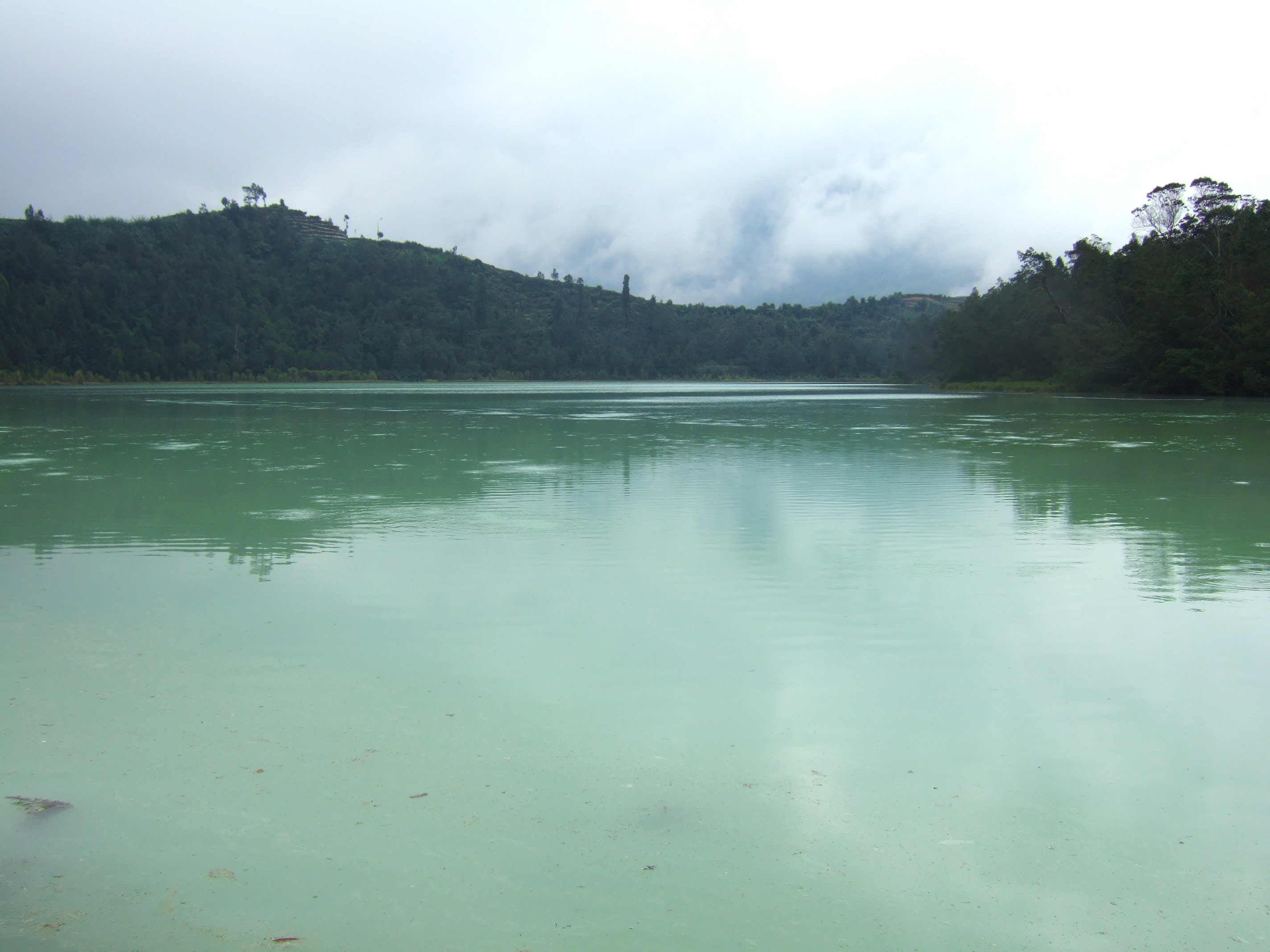 Lake Warna, Dieng Plateau, Central Java, Indonesia